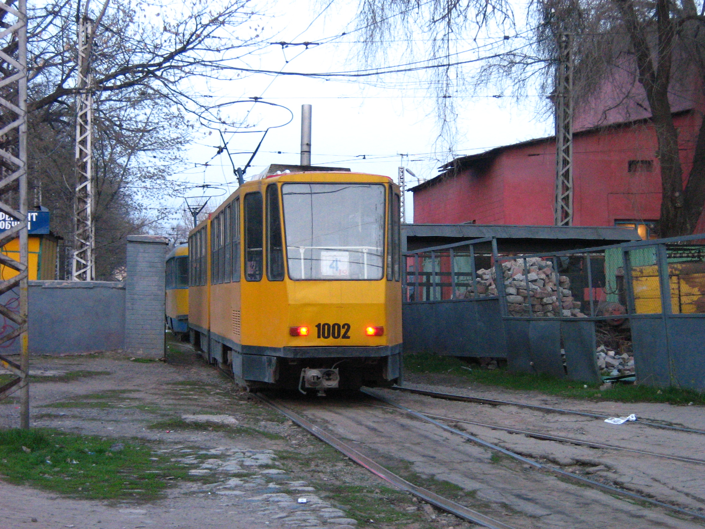 Almaty tramway central station